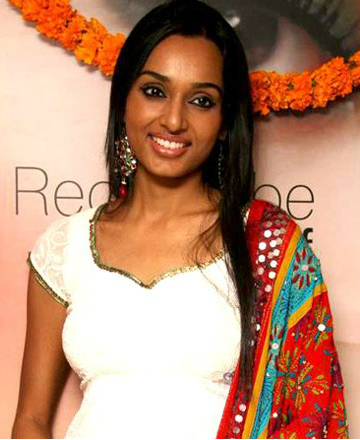 Reshmi Ghosh launches Berkowits